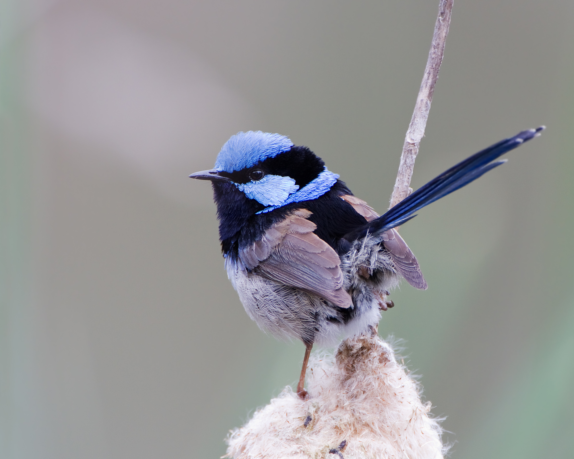 Superb Fairywren (Malurus cyaneus), Male, Peter Murrell Reserve, Tasmania, Australia